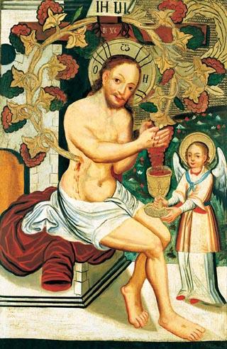 Icon: Savior. XVIII. century, Ukraine.